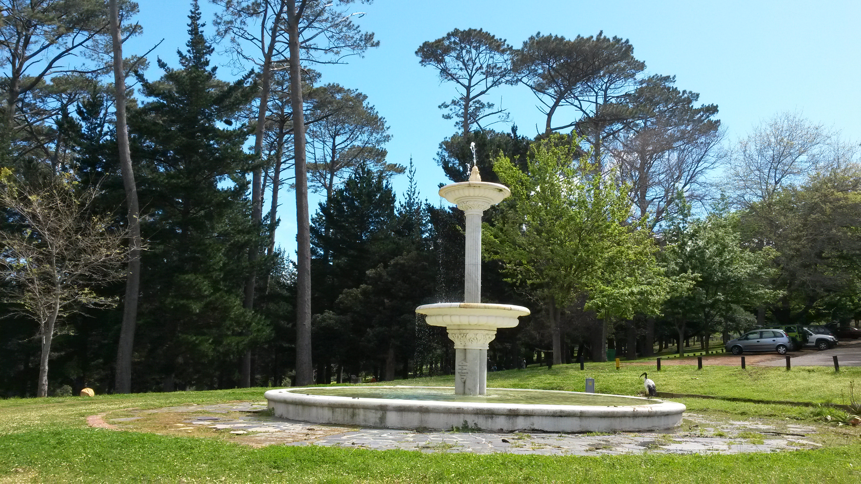 Fountain in Wynberg Park, Cape Town, commemorating the coronation of King Edward VII in 1902.